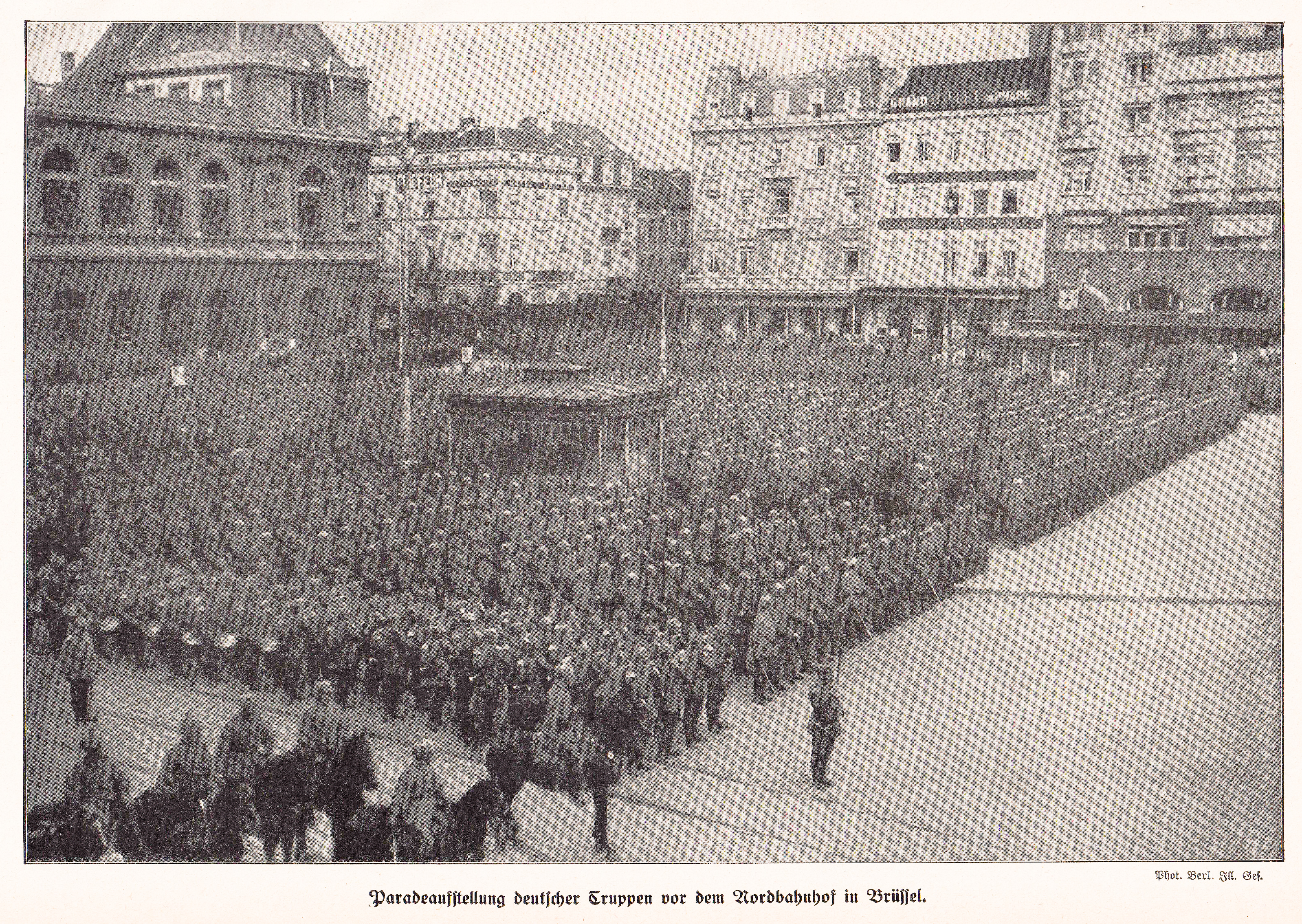 Der Krieg 1914-19 in Wort und Bild, published 1919